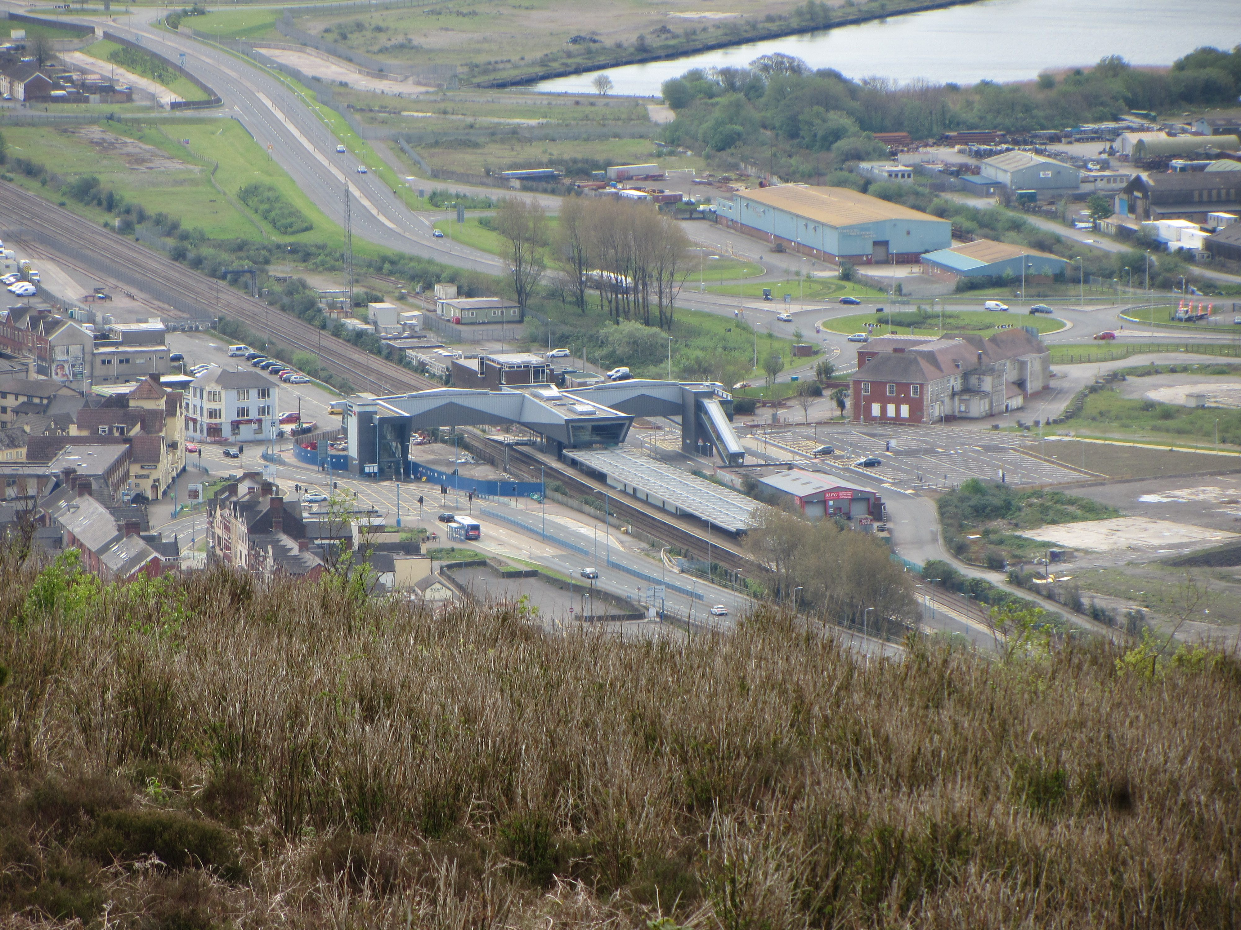 Port Talbot Parkway station from Mynydd Dinas